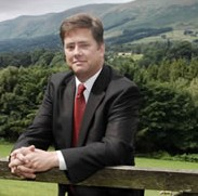 Keith Brown, Scottish politician